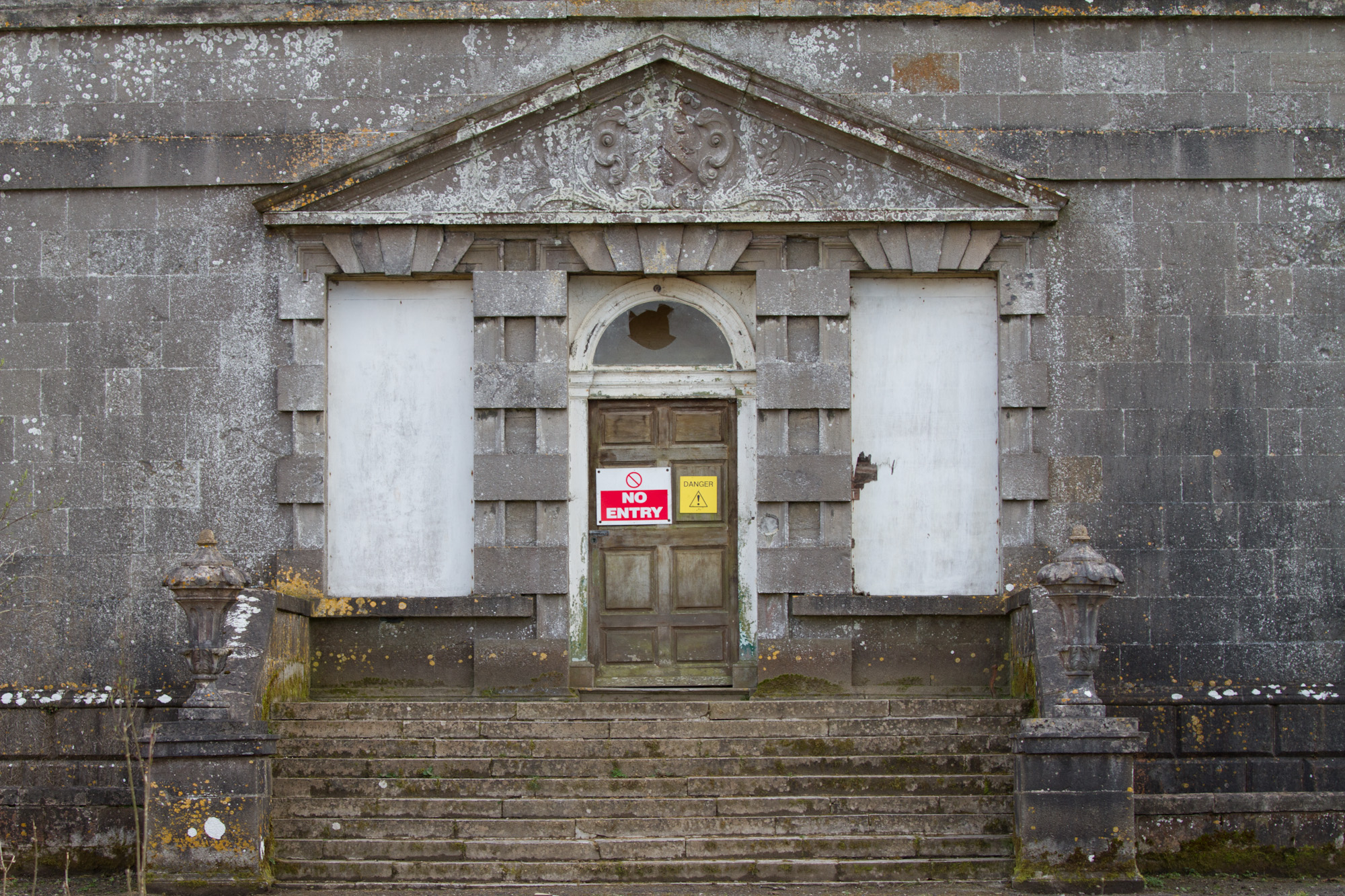 Main doorway at Hazelwood house.